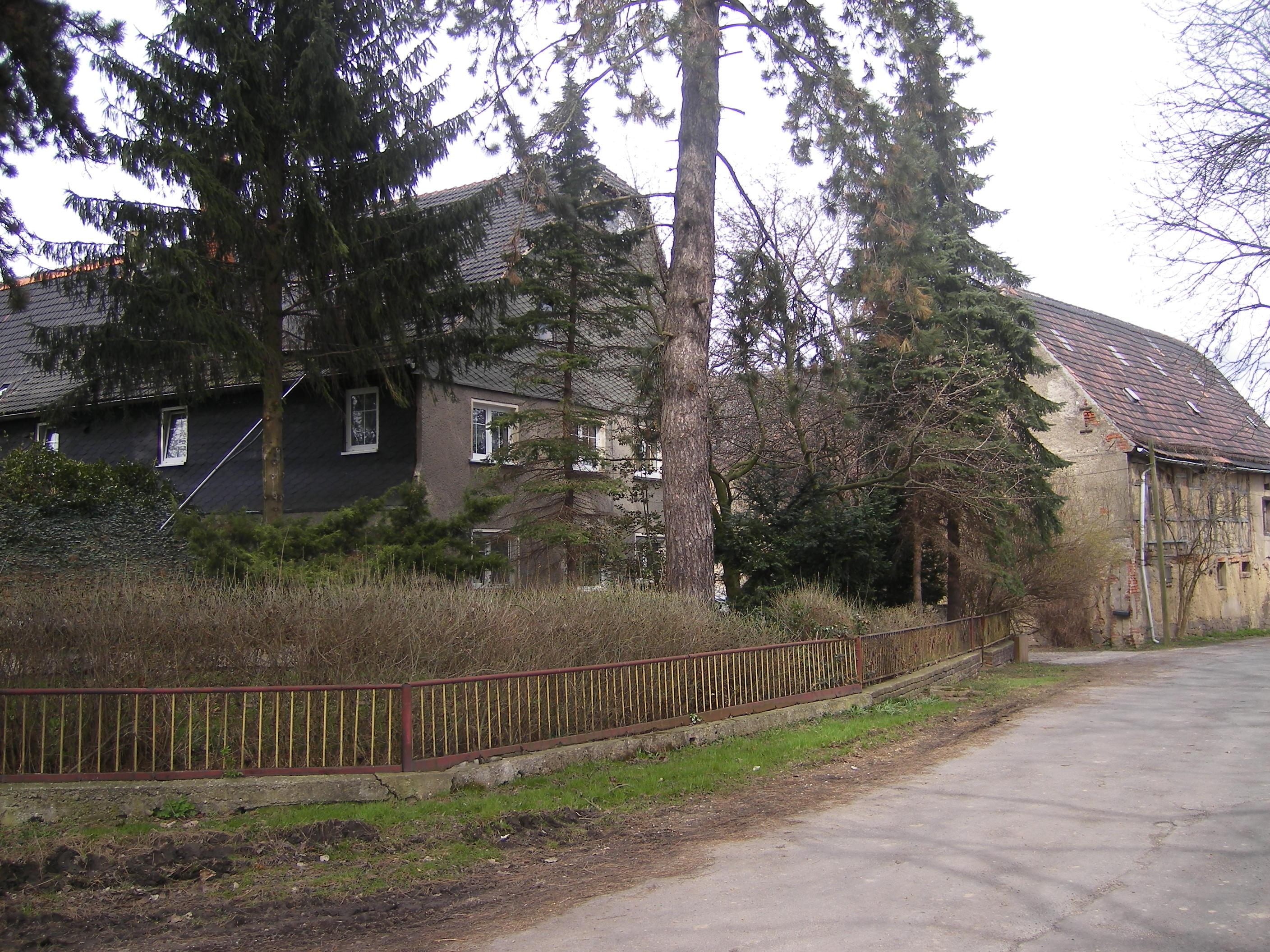 This picture shows a grange in Zschaiga, a part of Altenburg in Thuringia, Germany.